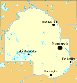 Locator Map of Hennepin County, Minnesota, United States Licensing I, Appraiser, the copyright holder of this work, hereby publishes it under the following licenses: Attribution: I, Appraiser